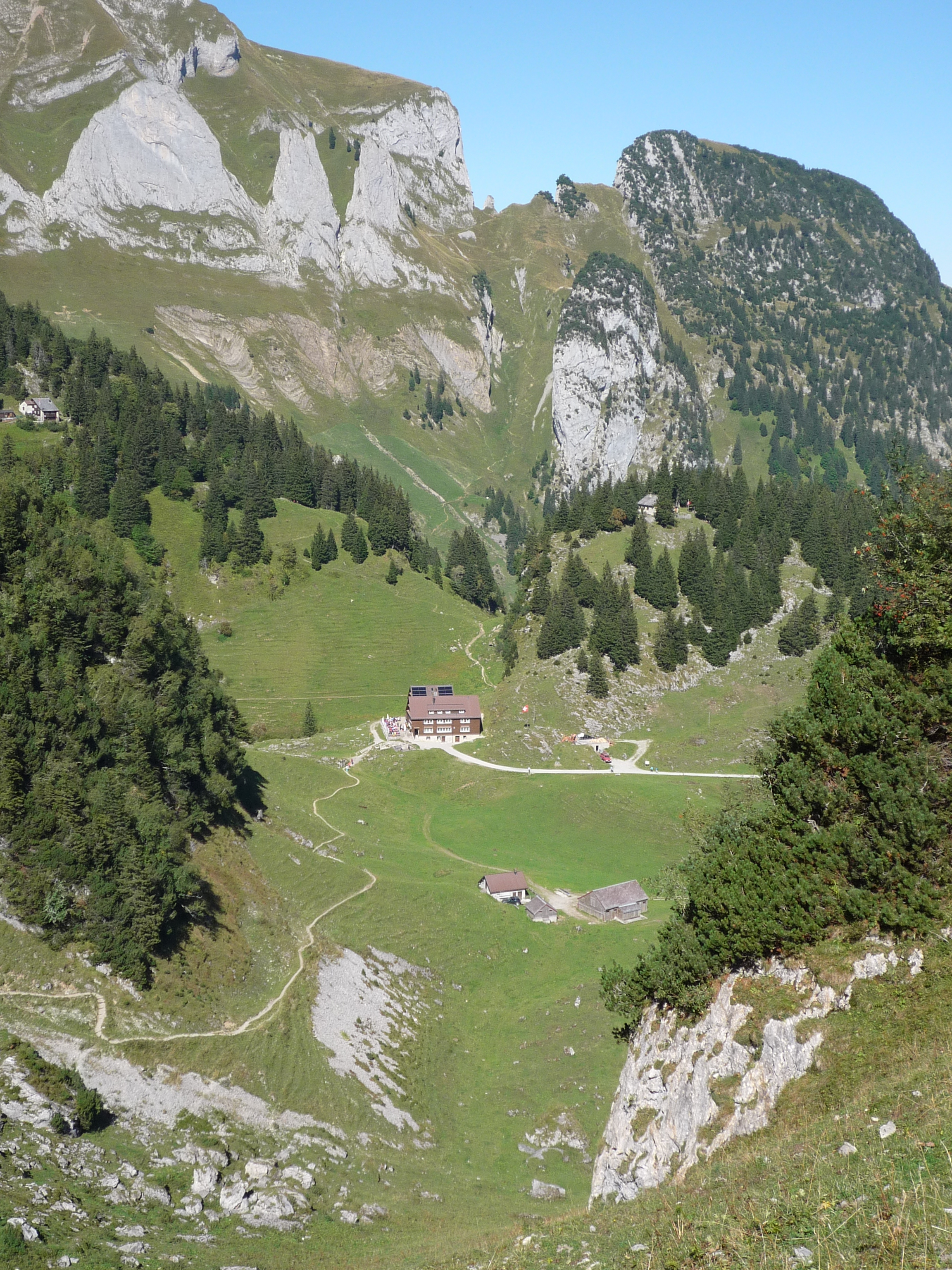 Bollenwees in line with Bogartenlücke, both on the same fault in the Alpstein